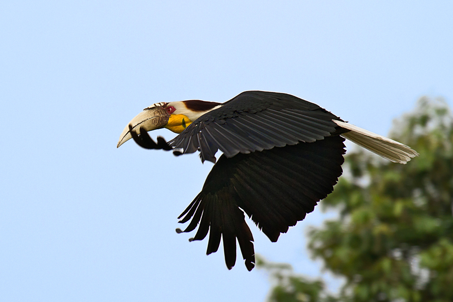 Ultapani Forest Reserve, Assam, India